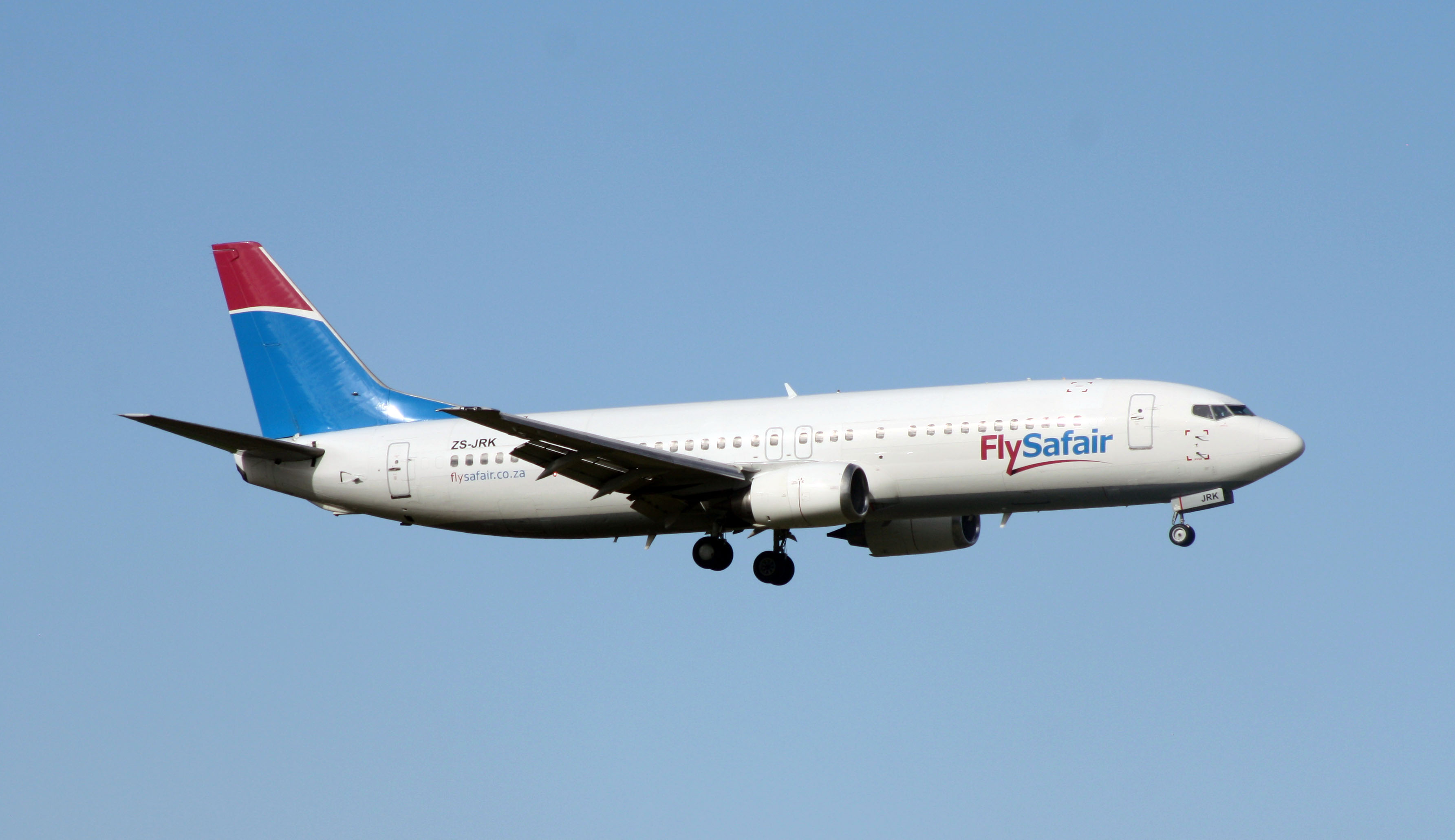 FlySafair B737-4Q8 ZS-JRK